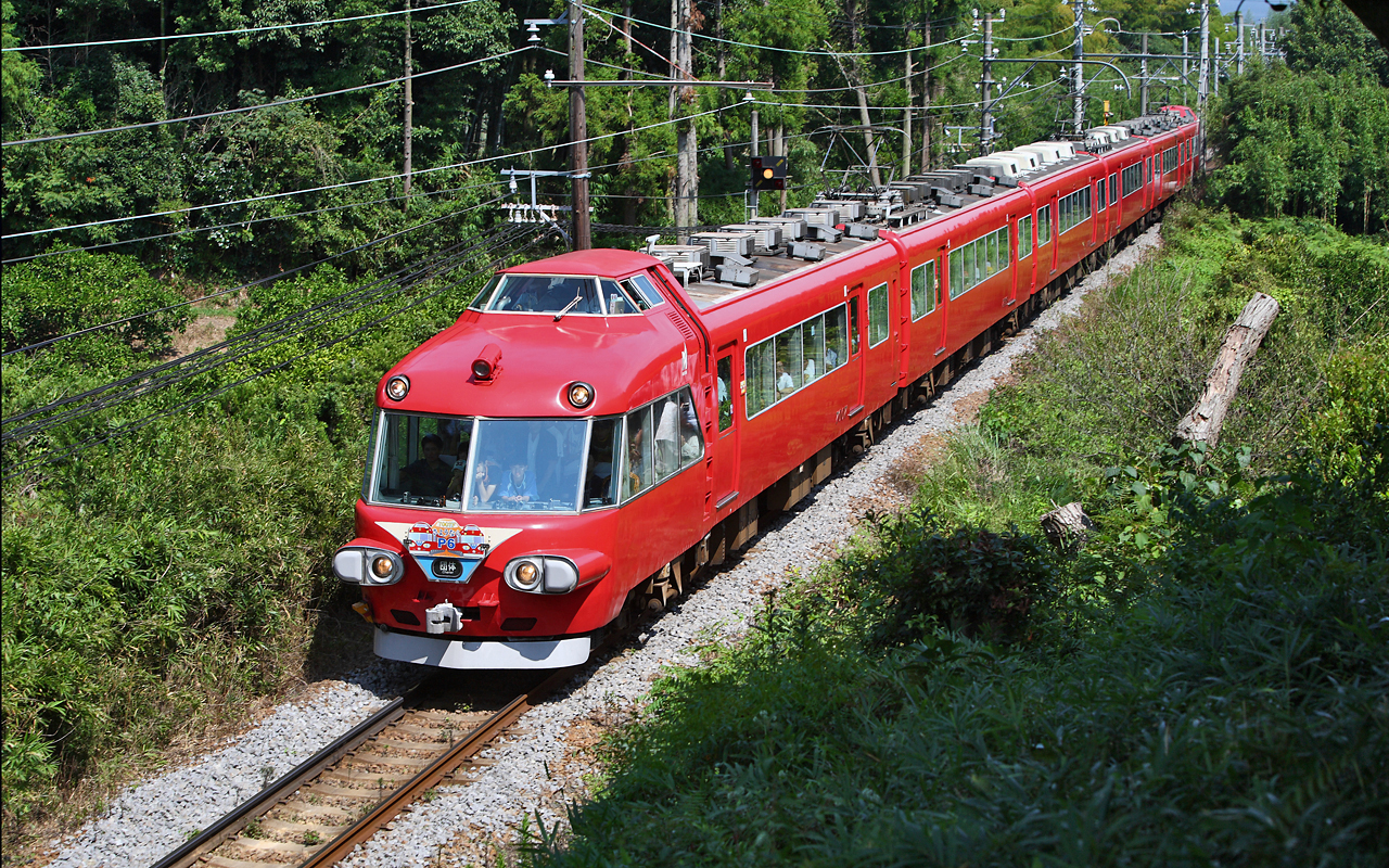 Meitetsu Panorama Car 7000 series EMU ( Last-run event of 7007F ), Kowaguchi Sta. → Kowa Sta.